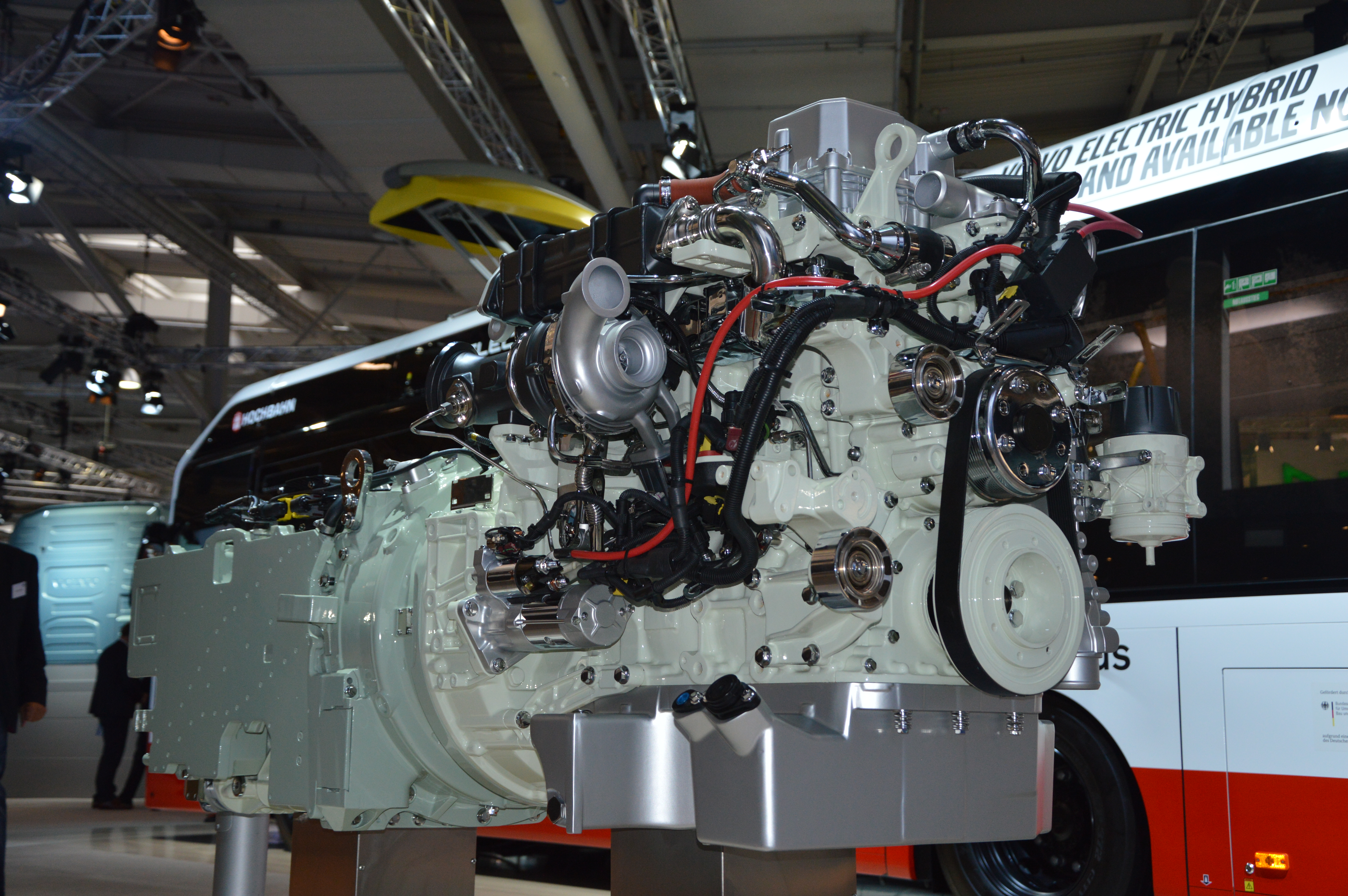 Hybrid engine: The Volvo hybrid bus 7900 is equipped with a diesel engine and an electric motor: straight four-cylinder diesel engine Volvo D5K 240 (177 kW, 240 hp) with common rail injection as well as an electric motor Volvo I-SAM (150 kW max.).